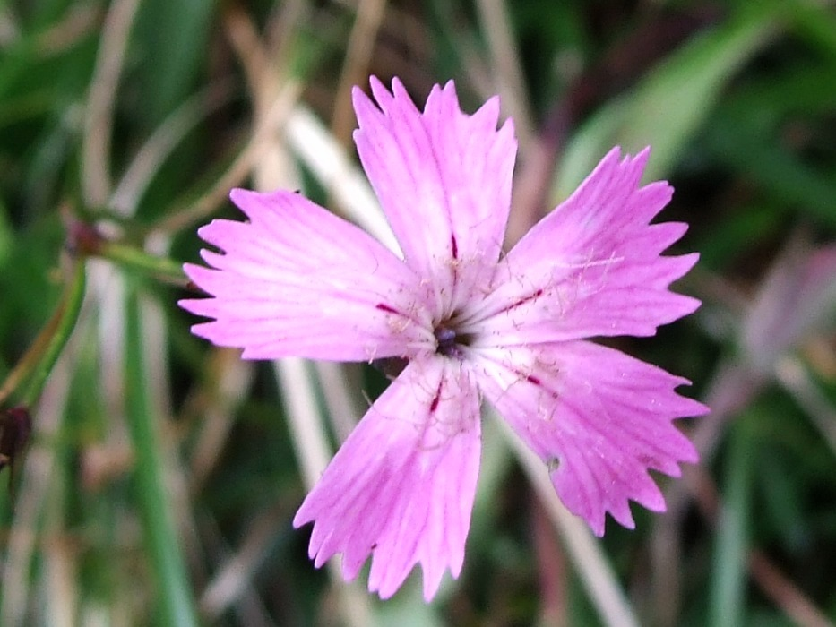 Dianthus nitidus (habitat: West Tatra Mountains, Siwy Wierch, Słowacja)